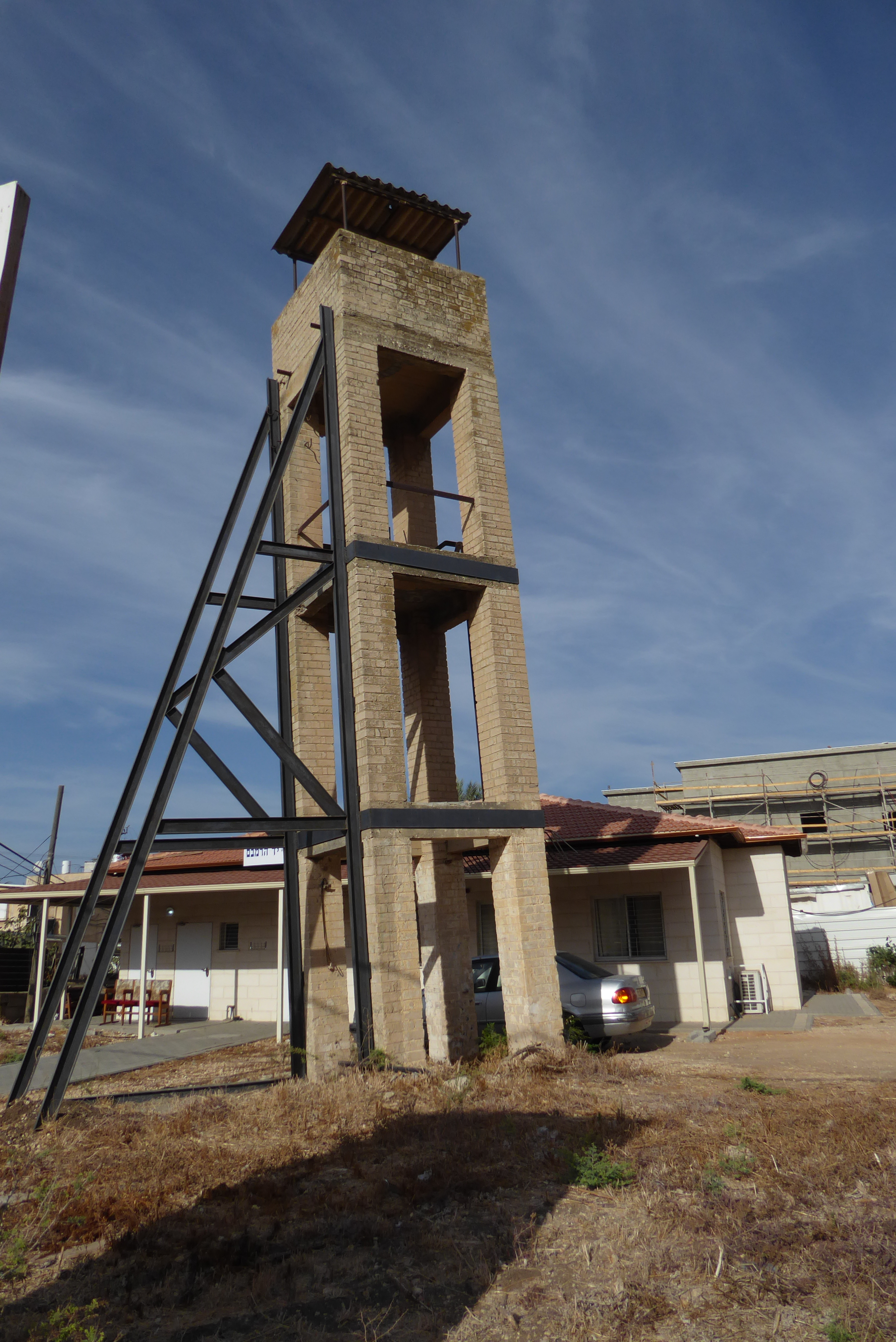 British Guard Tower on Ibn Gabirol Street